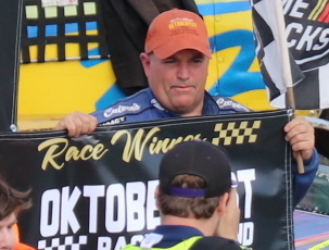 Frank Kreyer after winning the crate feature of the 50th annual Oktoberfest race weekend at La Crosse Fairgrounds Speedway.